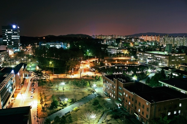 Campus of Seoul National University of Technology in 2009, Seoultech, SNUT.